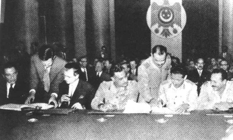 Nasser signing the treaty for the evacuation of British troops from Egypt, 19 October 1956; from a 2006 reprint in Mohamed Shafie Mohamed Yusuf, The Suez Canal.